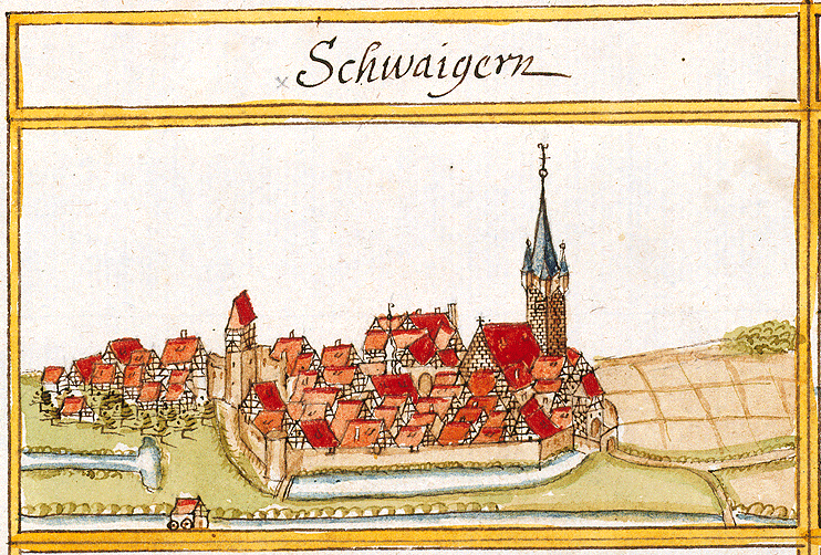 View of Schwaigern from the forest register books created by Andreas Kieser